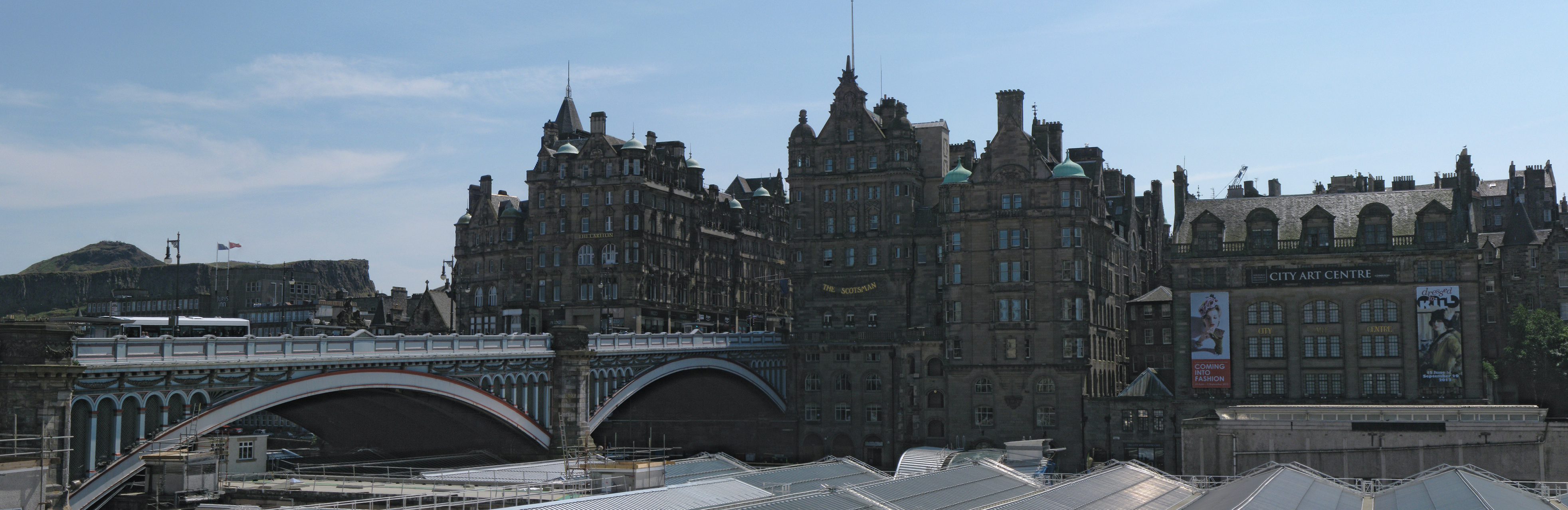 Hugin-composed panorama view from top of Waverley Station, Edinburgh. View covers North bridge, the glass roof over the railway station, Carlton Hotel, The Scotsman offices and City Art Centre.